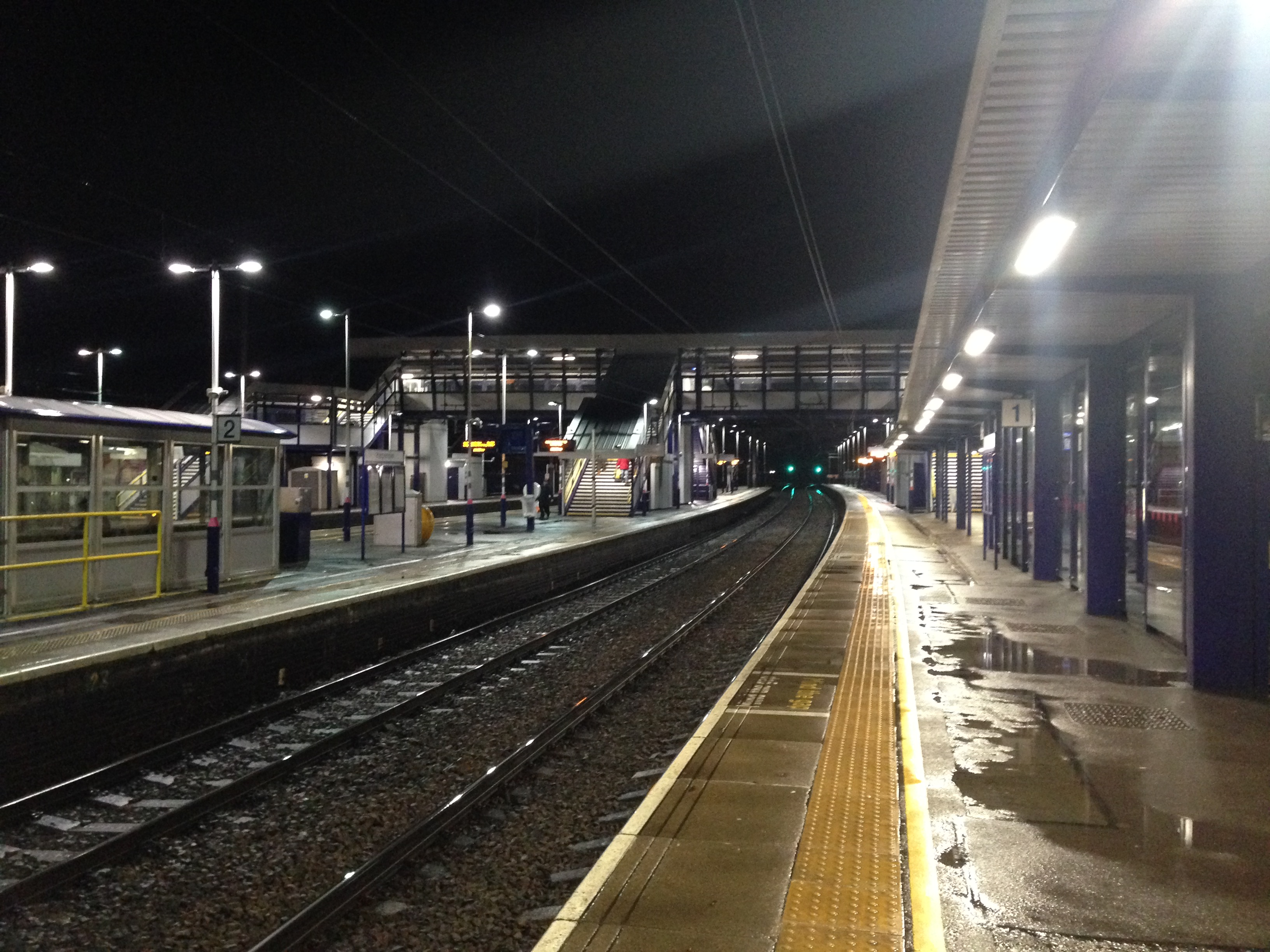 Looking Northbound from Platform 1 at Harpenden Station